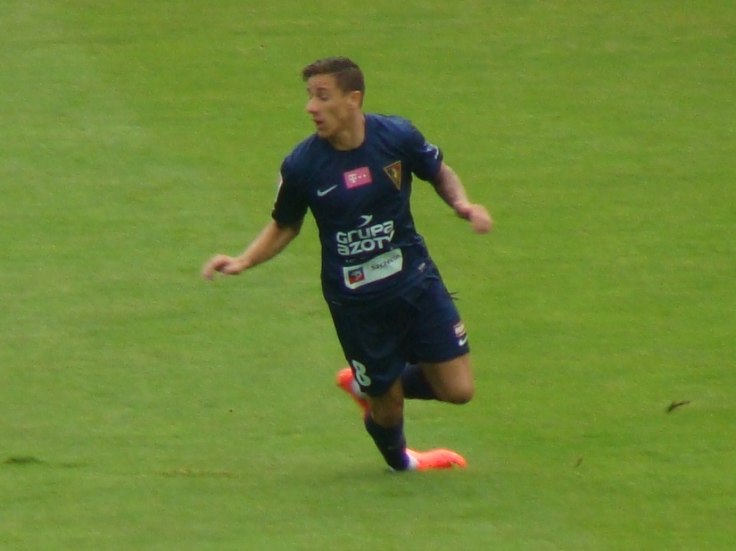 Jakub Bąk during match: Pogoń Szczecin - Werder Bremen